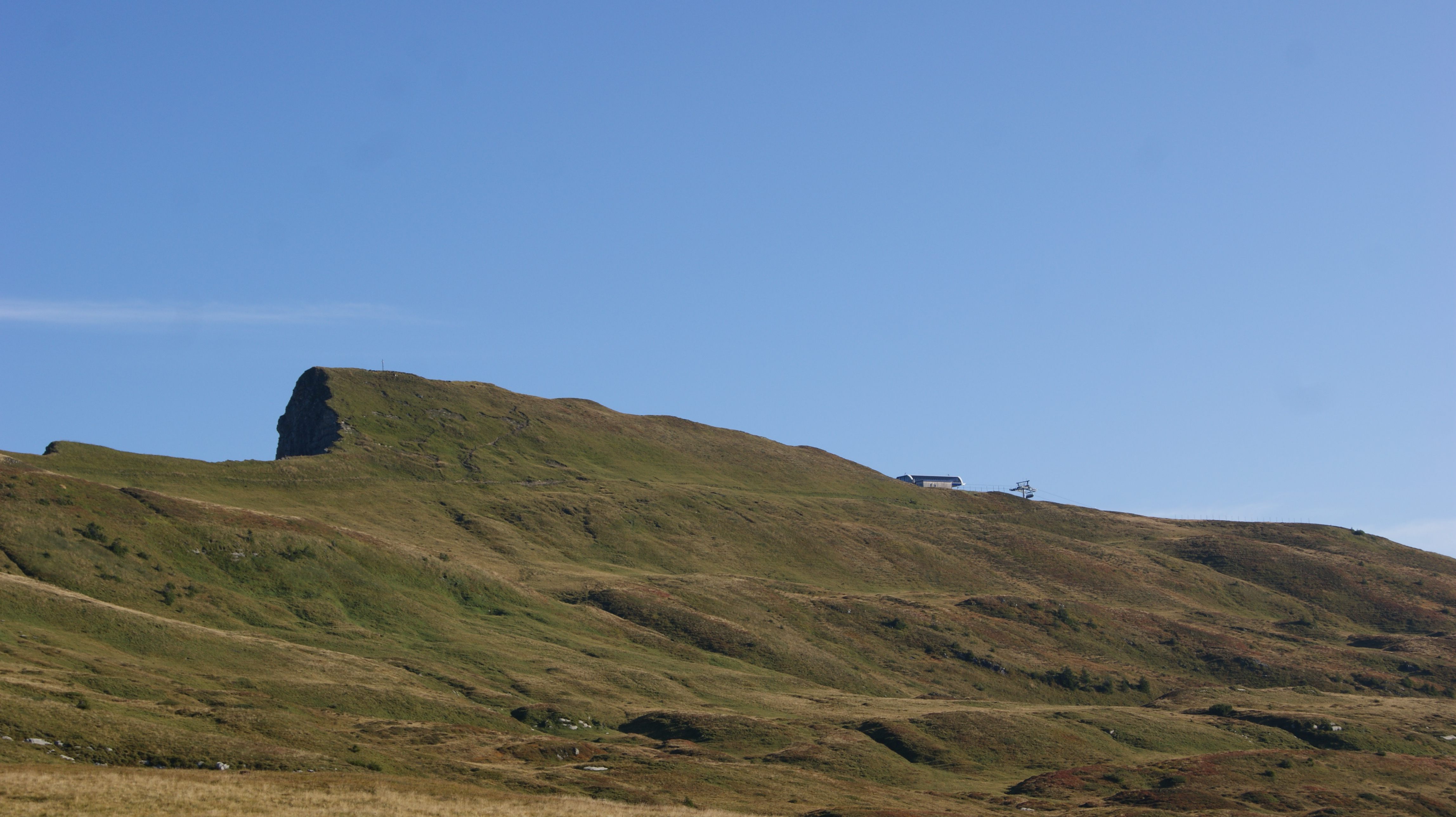 View from Suenserjoch (Ragazerjoch) to the Ragazer Blanken (2051 masl) and the Topstation of the Ragazbahn.